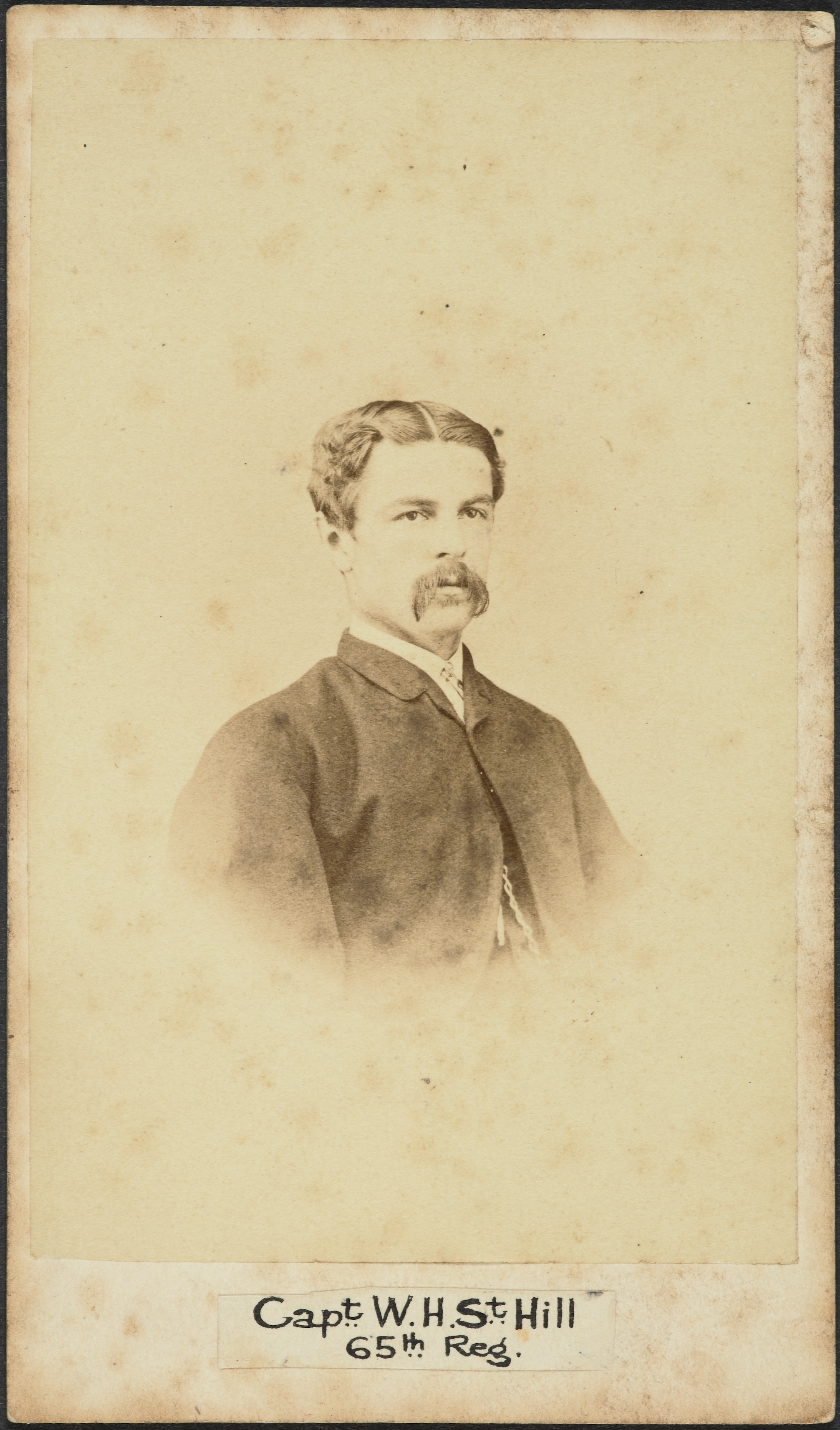 Captain Windle Hill St. Hill, an officer in the British Army during the New Zealand Wars.